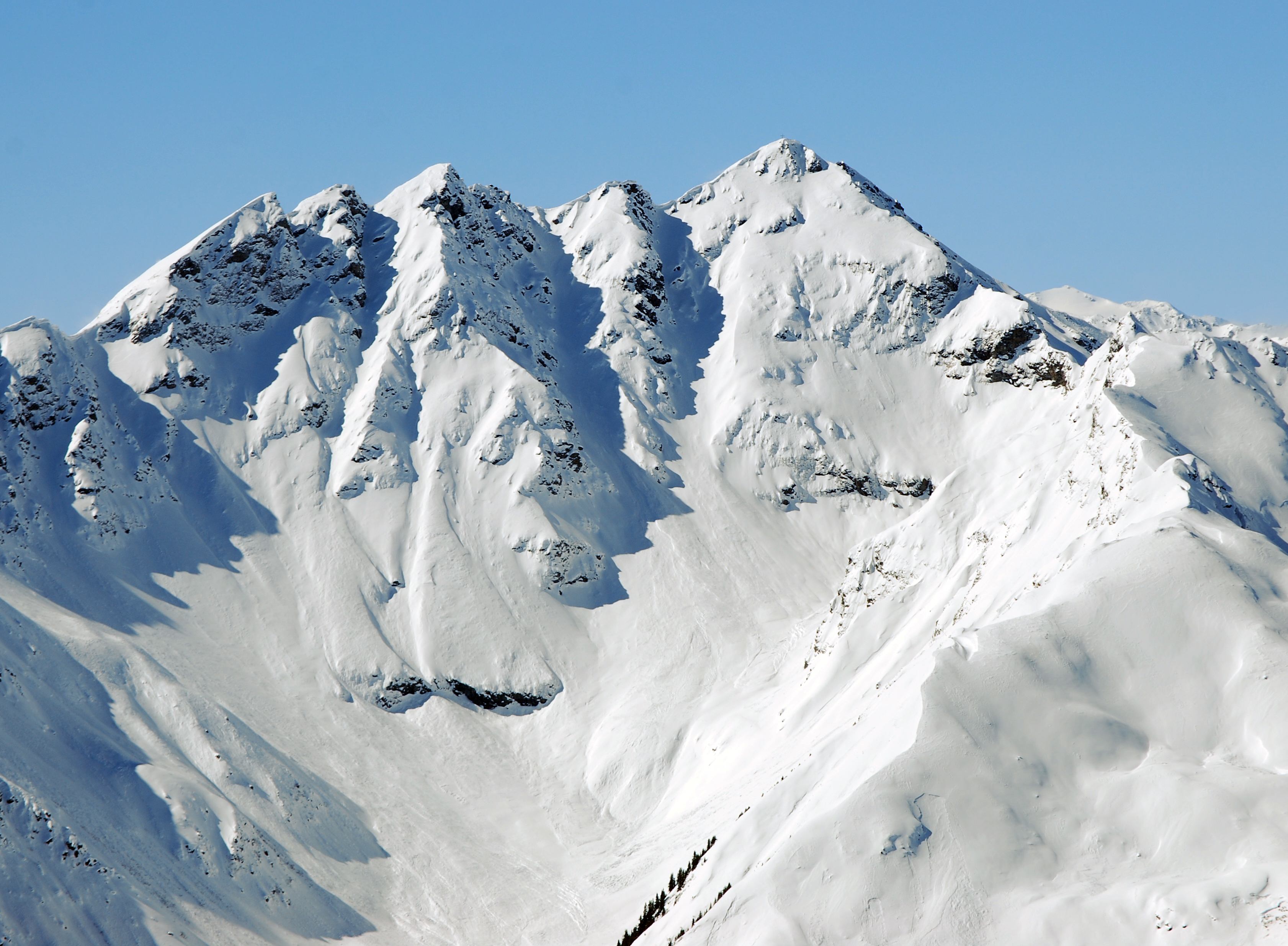 Wetterspitze from NE (Grubenkopf)